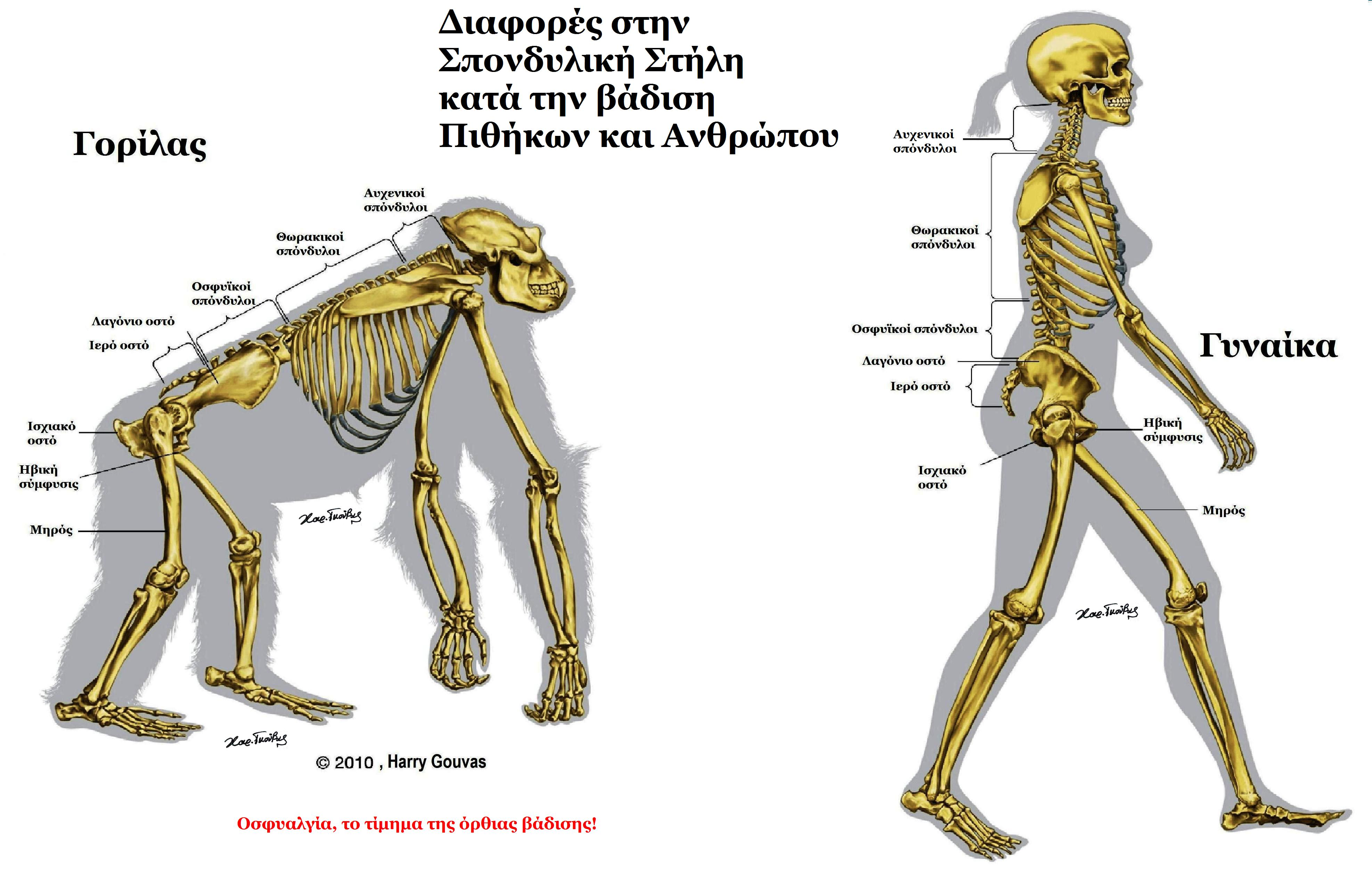 Low back pain greek diagramm